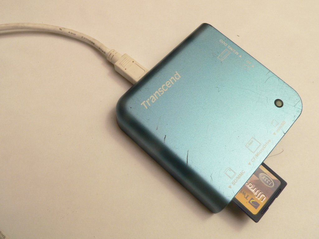 A USB Secure Digital card reader by Transcend Information.